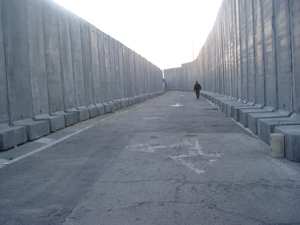 Palestinian man returning home. Concrete walled section of the Israeli West Bank barrier.